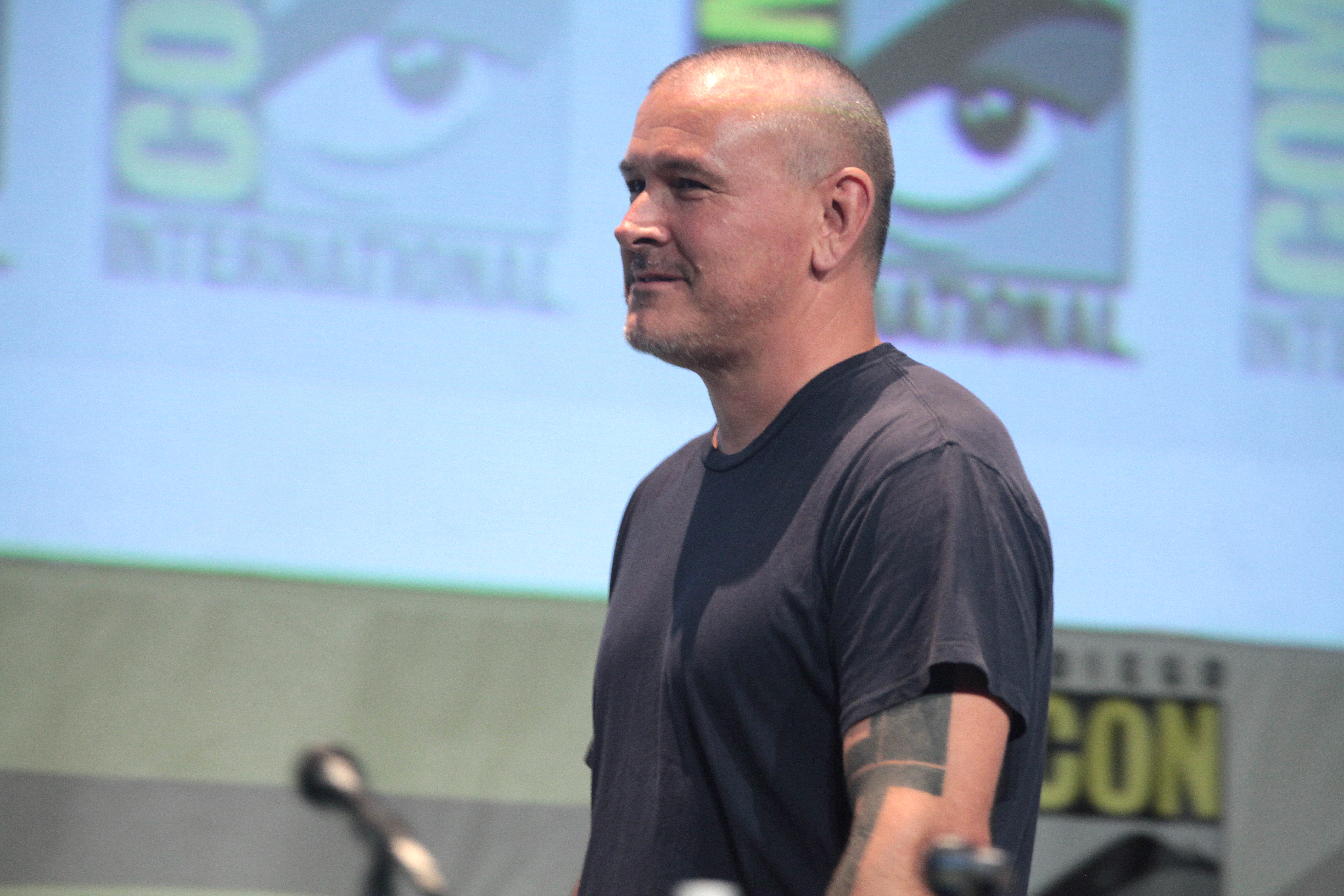 Tim Miller speaking at the 2015 San Diego Comic Con International, for "Deadpool", at the San Diego Convention Center in San Diego, California.